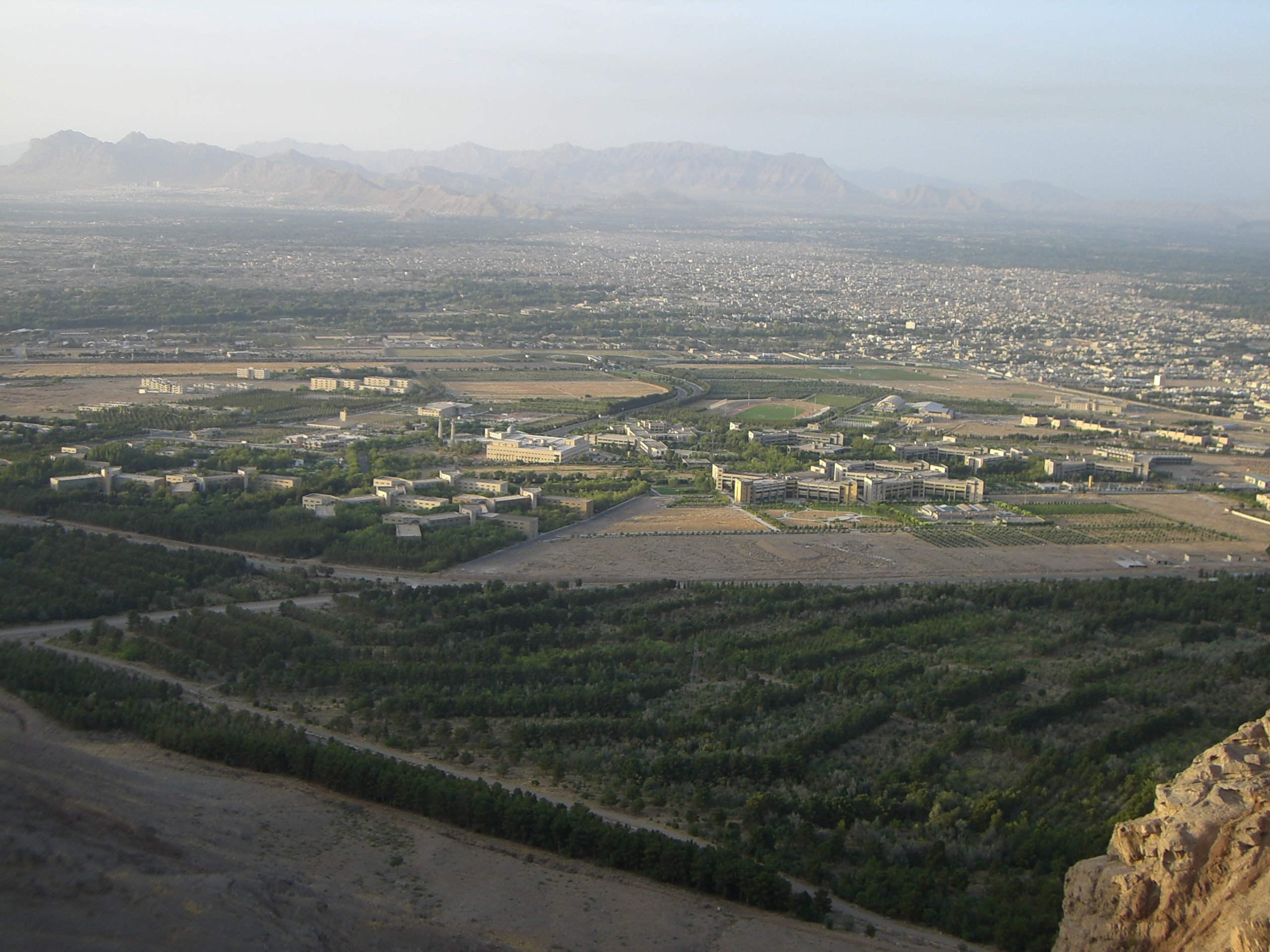 Khomeynishar near Isfahan, seen from a mountain near Isfahan University of Technology early in the morning.